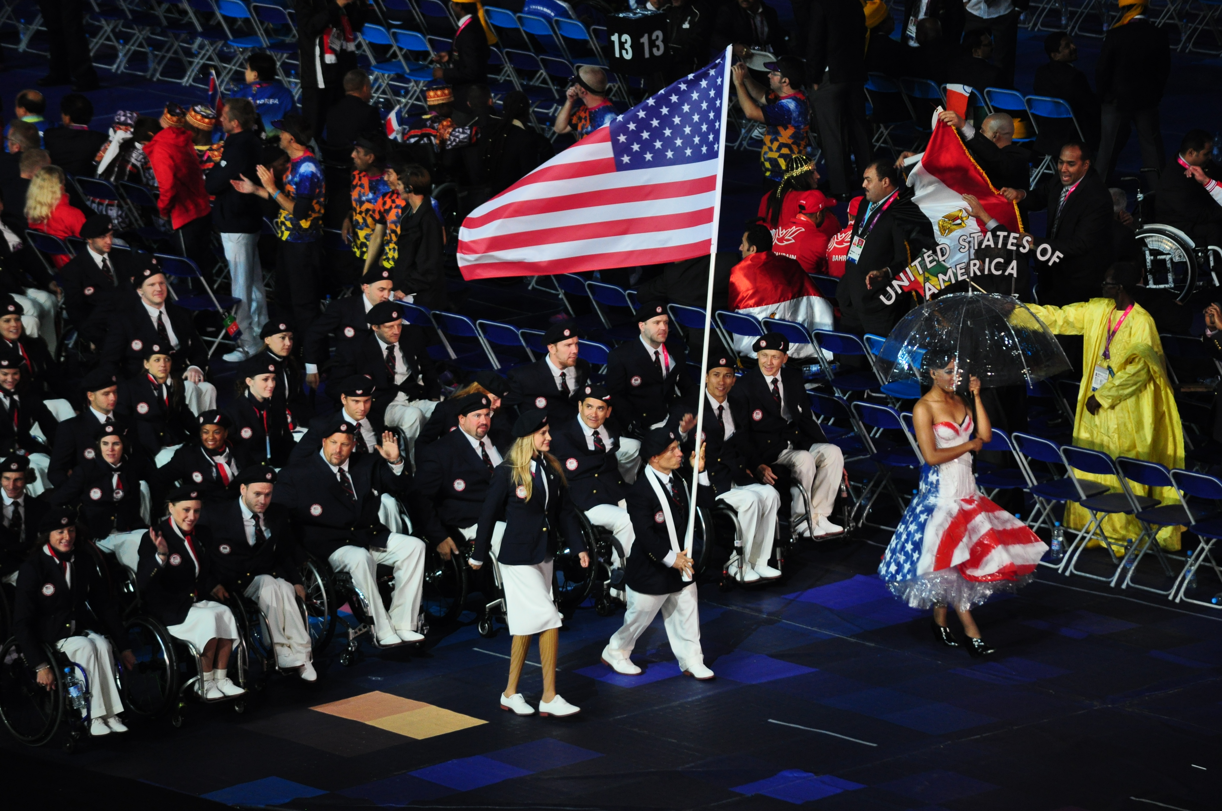 USA paralympic team